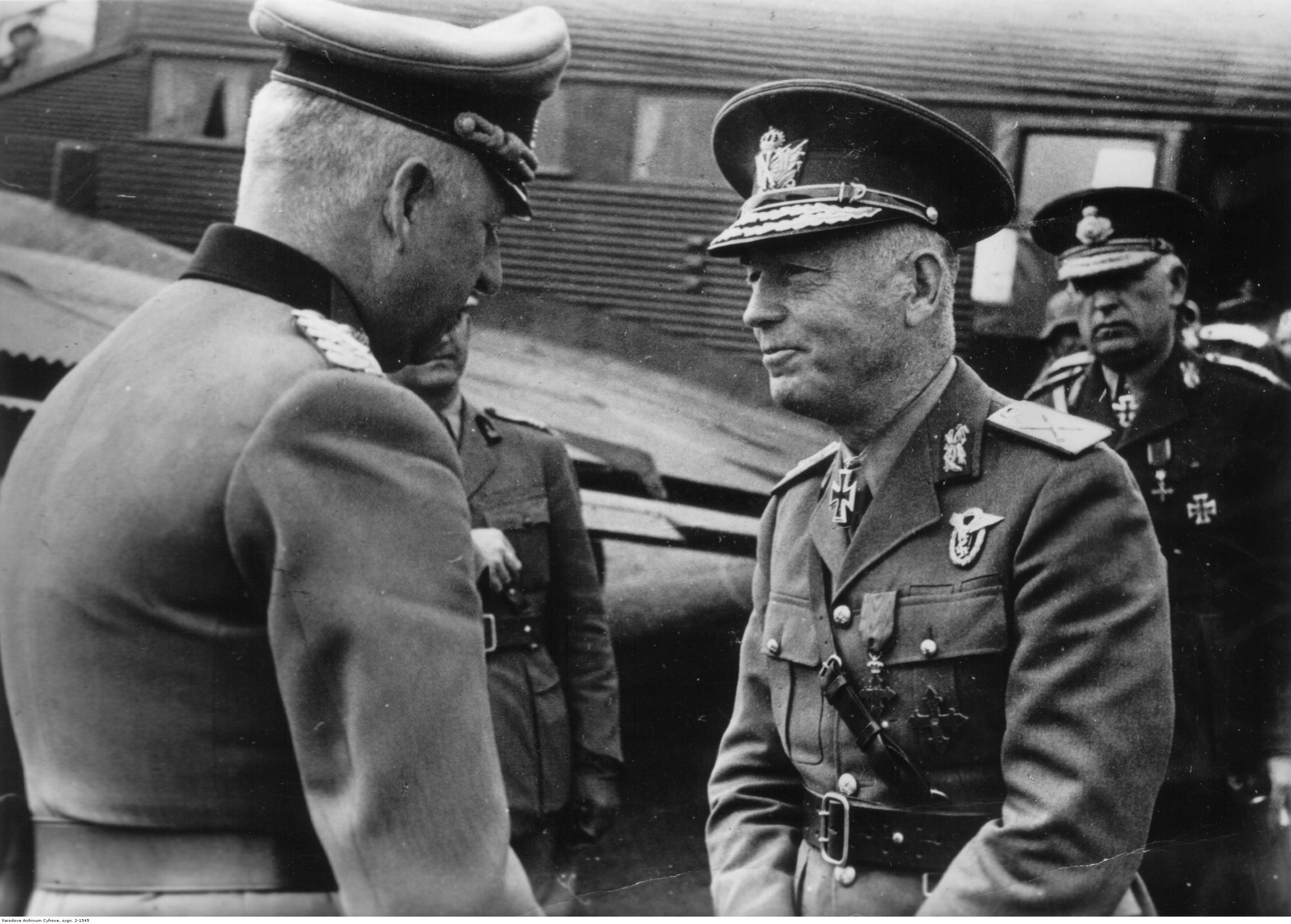 Marshal Erich von Manstein (left) welcomes Marshal Ion Antonescu to the field airfield. In the background, a visible fragment of the Junkers Ju-52 transport aircraft.